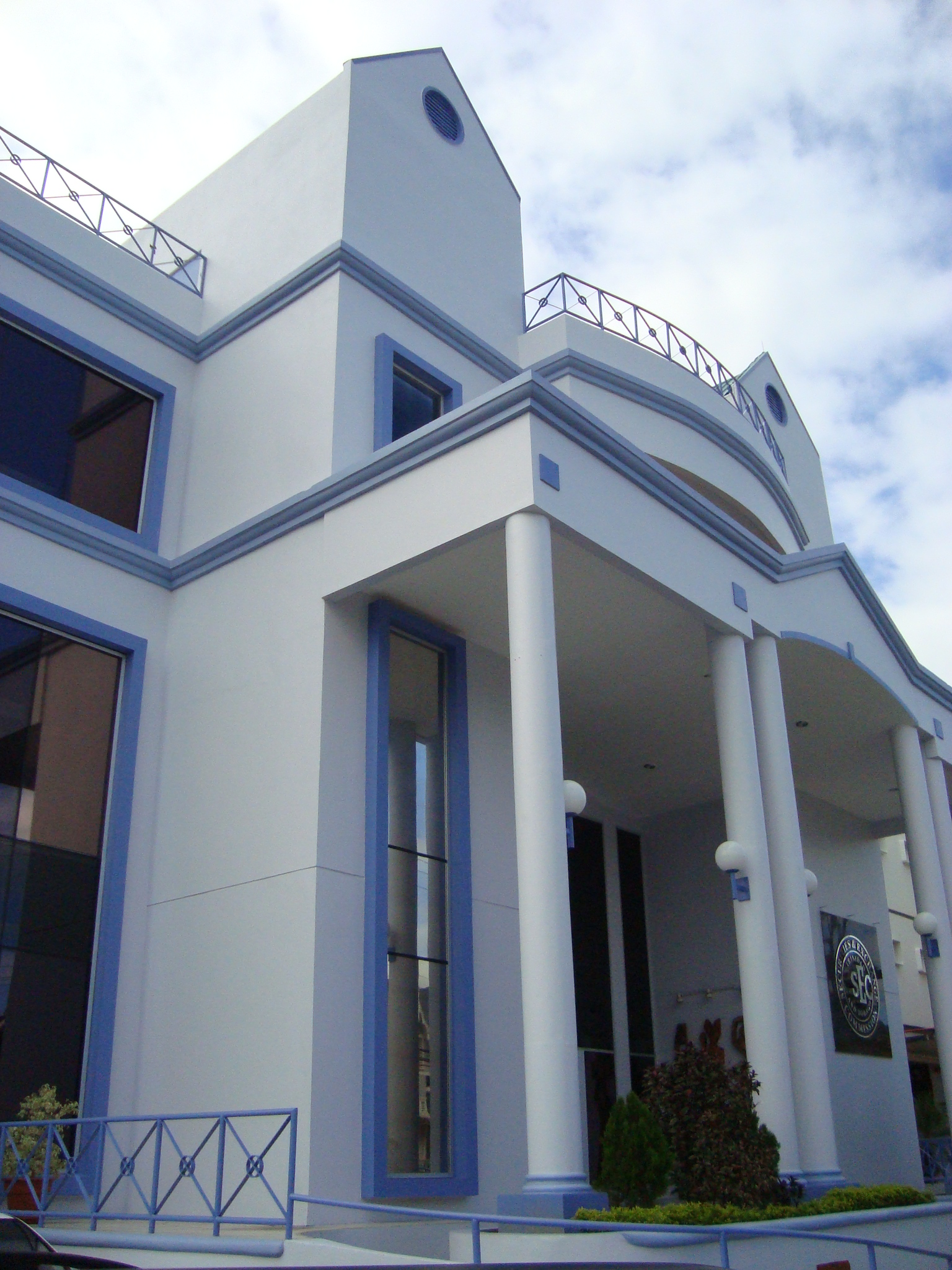 TTSEC Office - Port of Spain Trinidad and Tobago Securities and Exchange Commission